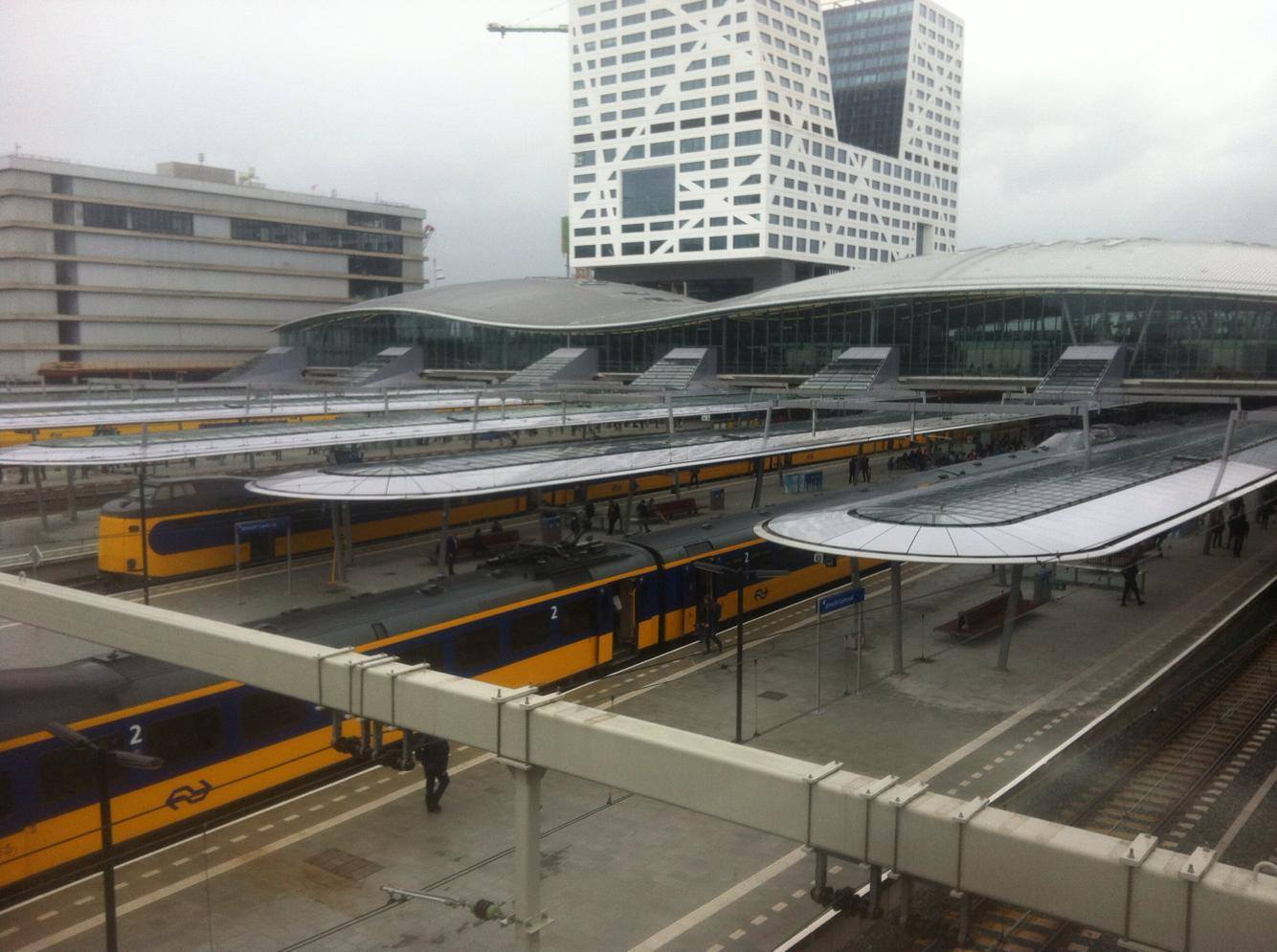 Utrecht Central station